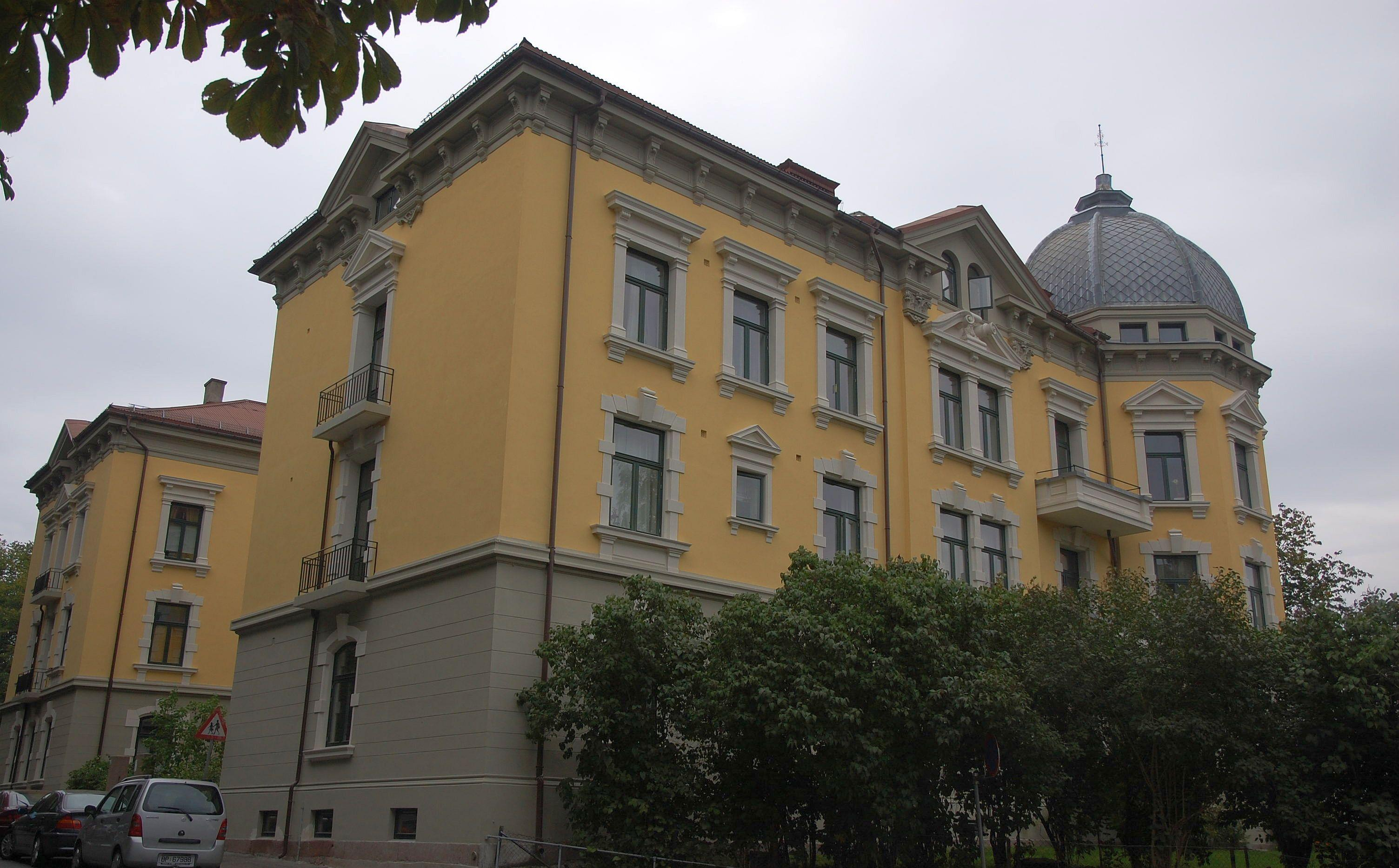 Geitmyrsveien 11-13 in Oslo."Study home for young girls" created by Professor Kristine Bonnevie in 1916 (machine translation)